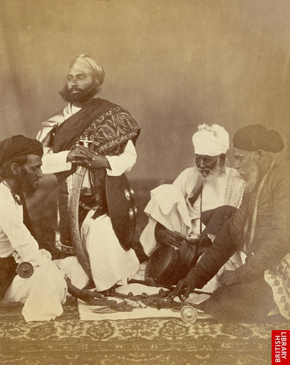 Rajput men playing the game of Puchesee; a photo byEugene Clutterbuck Impey, early 1860's* (BL)